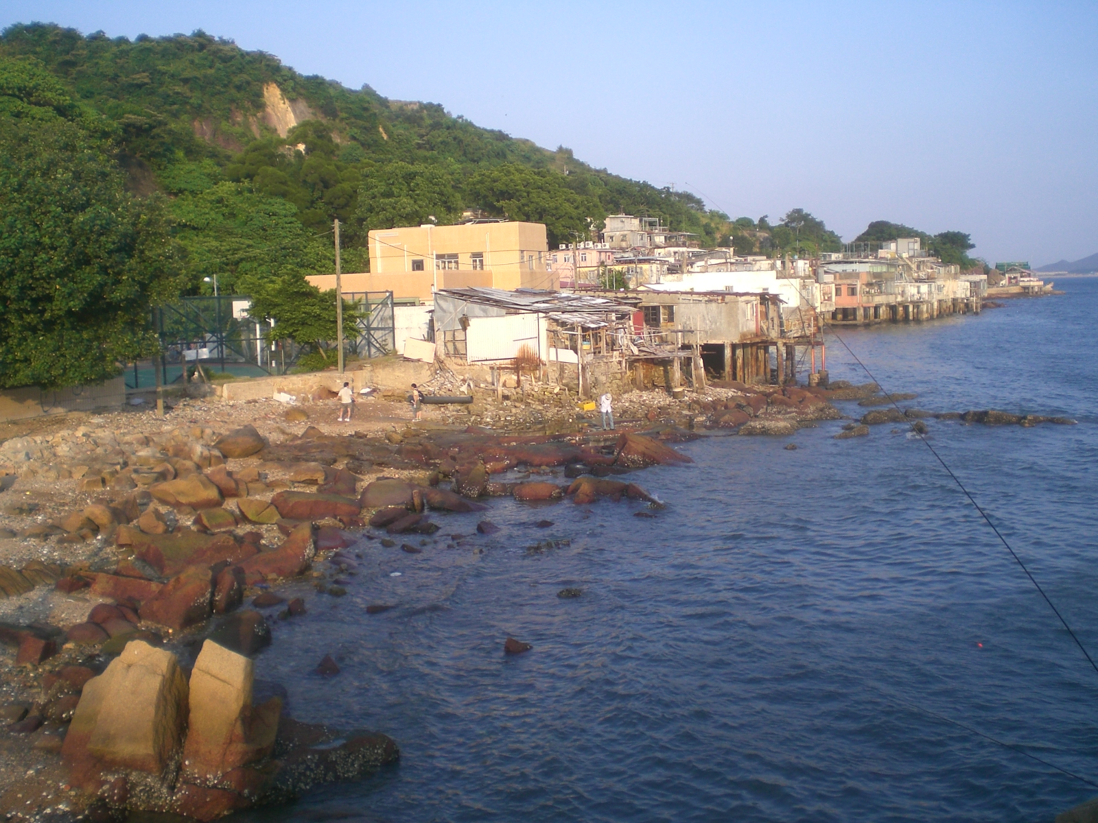 觀塘區